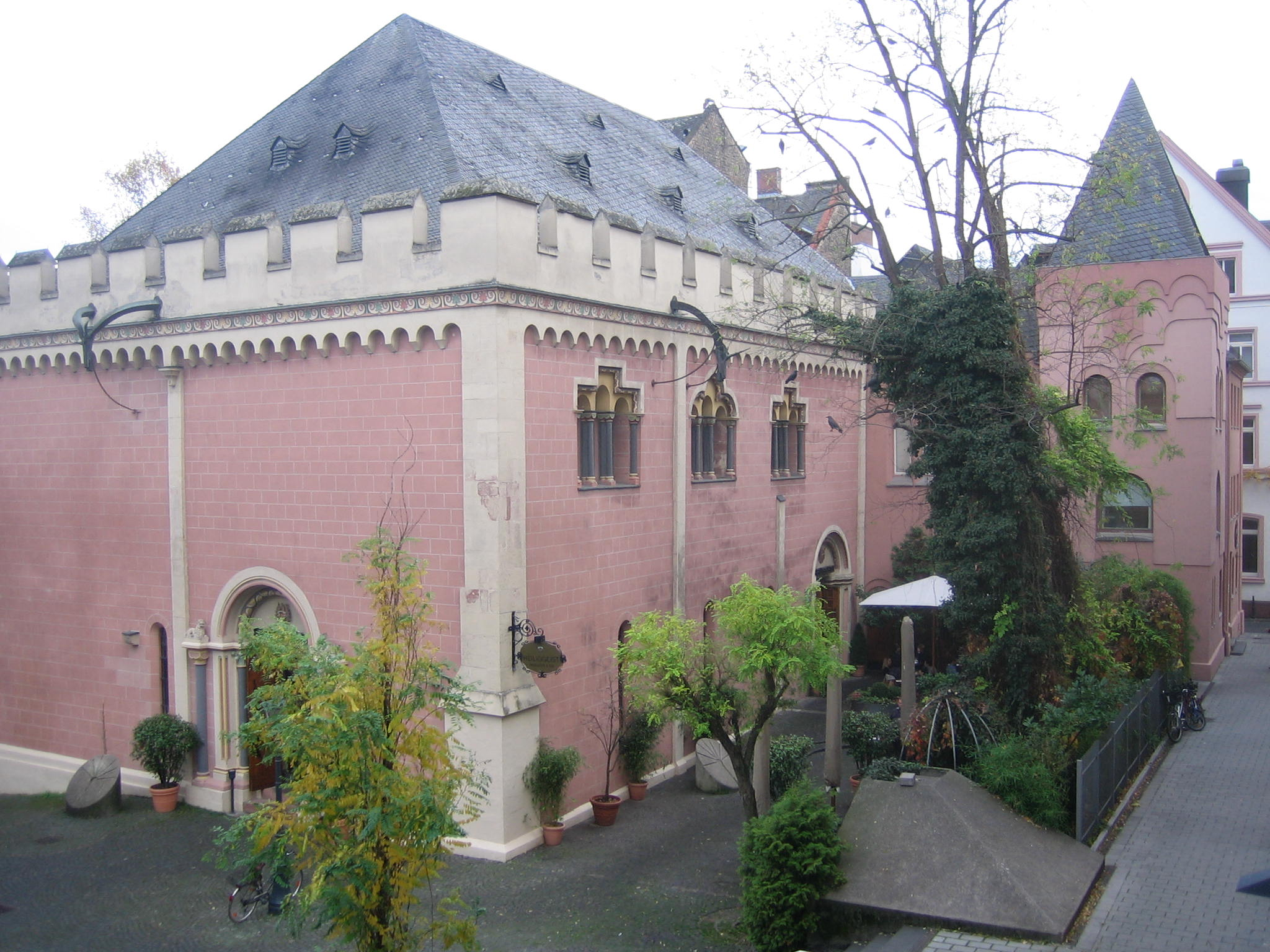 Medieval hospital "Heilig Geist" in Mainz